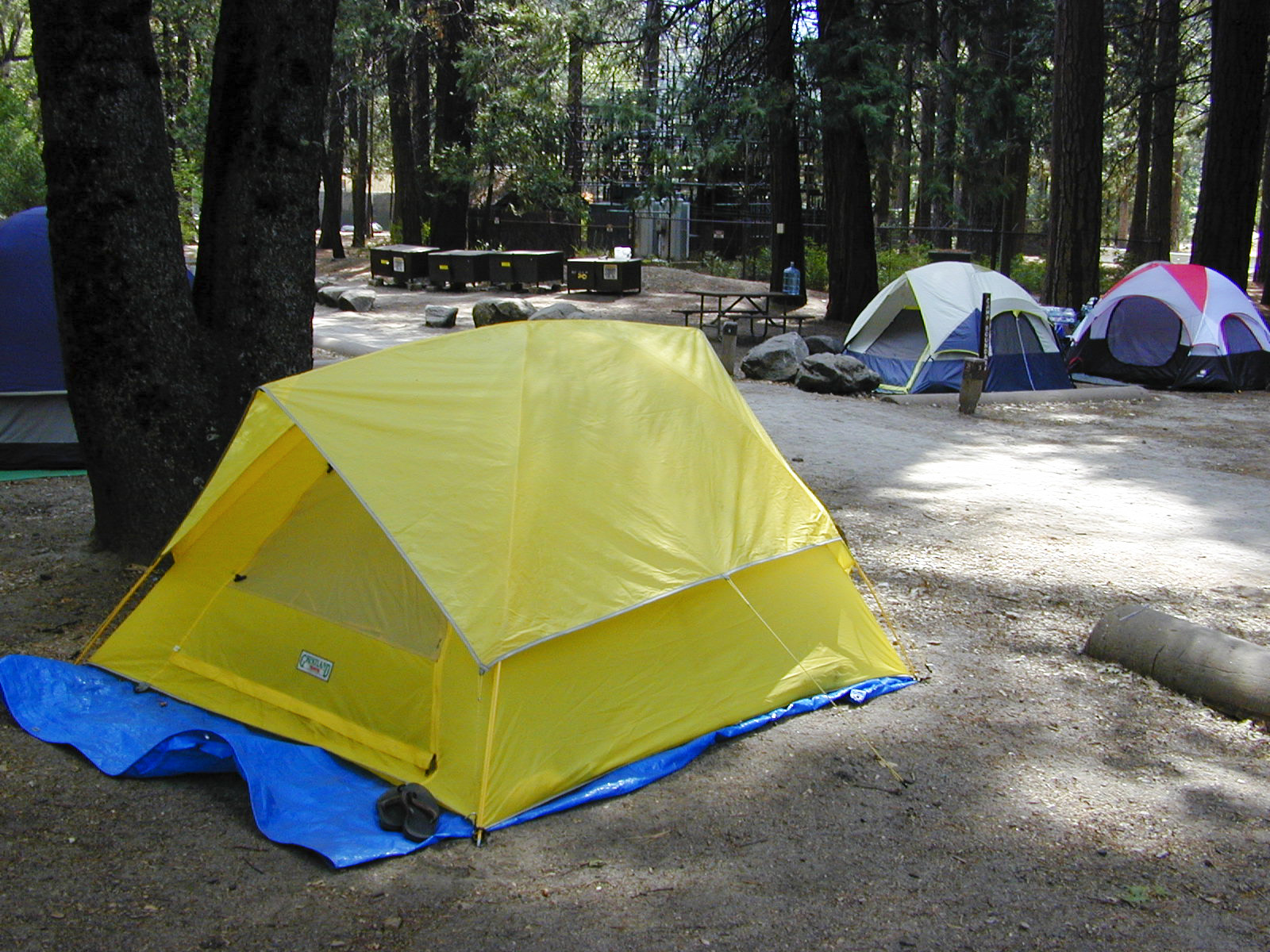 This is Camp 4 in Yosemite Valley, California, United States.